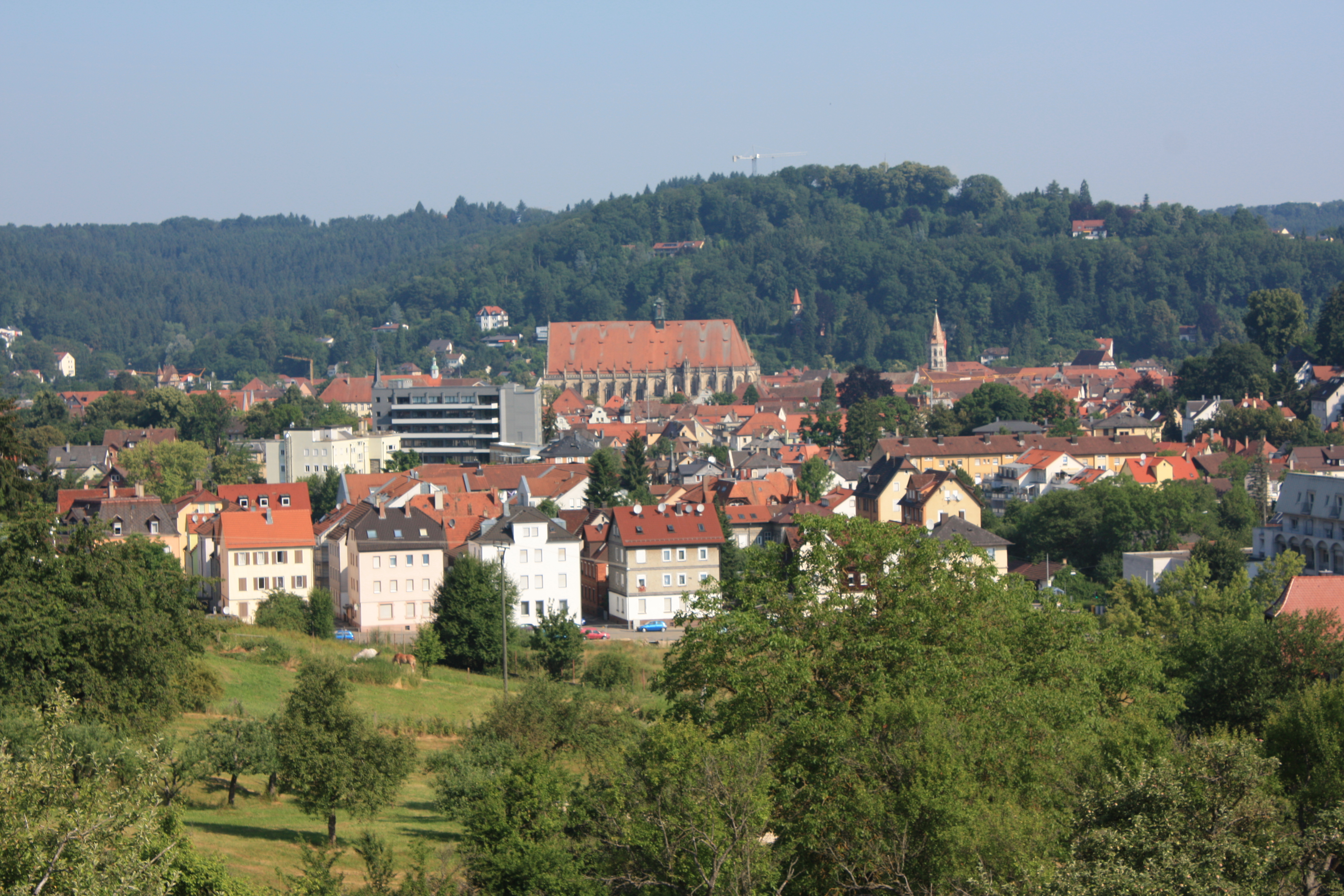 View on the City of Schwäbisch Gmünd (Germany)